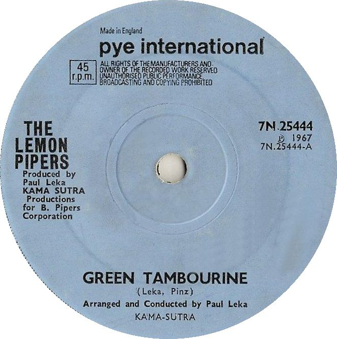 A-side label of "Green Tambourine" by The Lemon Peppers; UK vinyl release